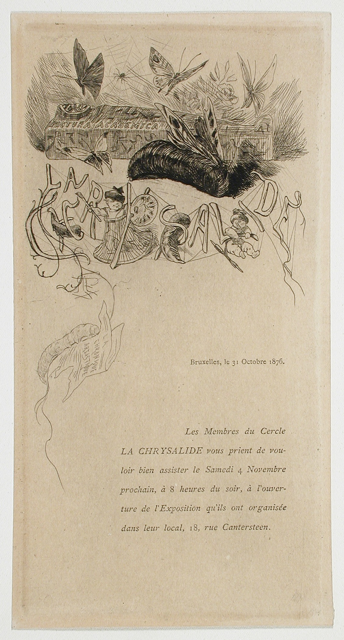 Belgium, 1876 Prints; etchings Etching and drypoint Gift of Michael G. Wilson (M.83.326.61) Prints and Drawings